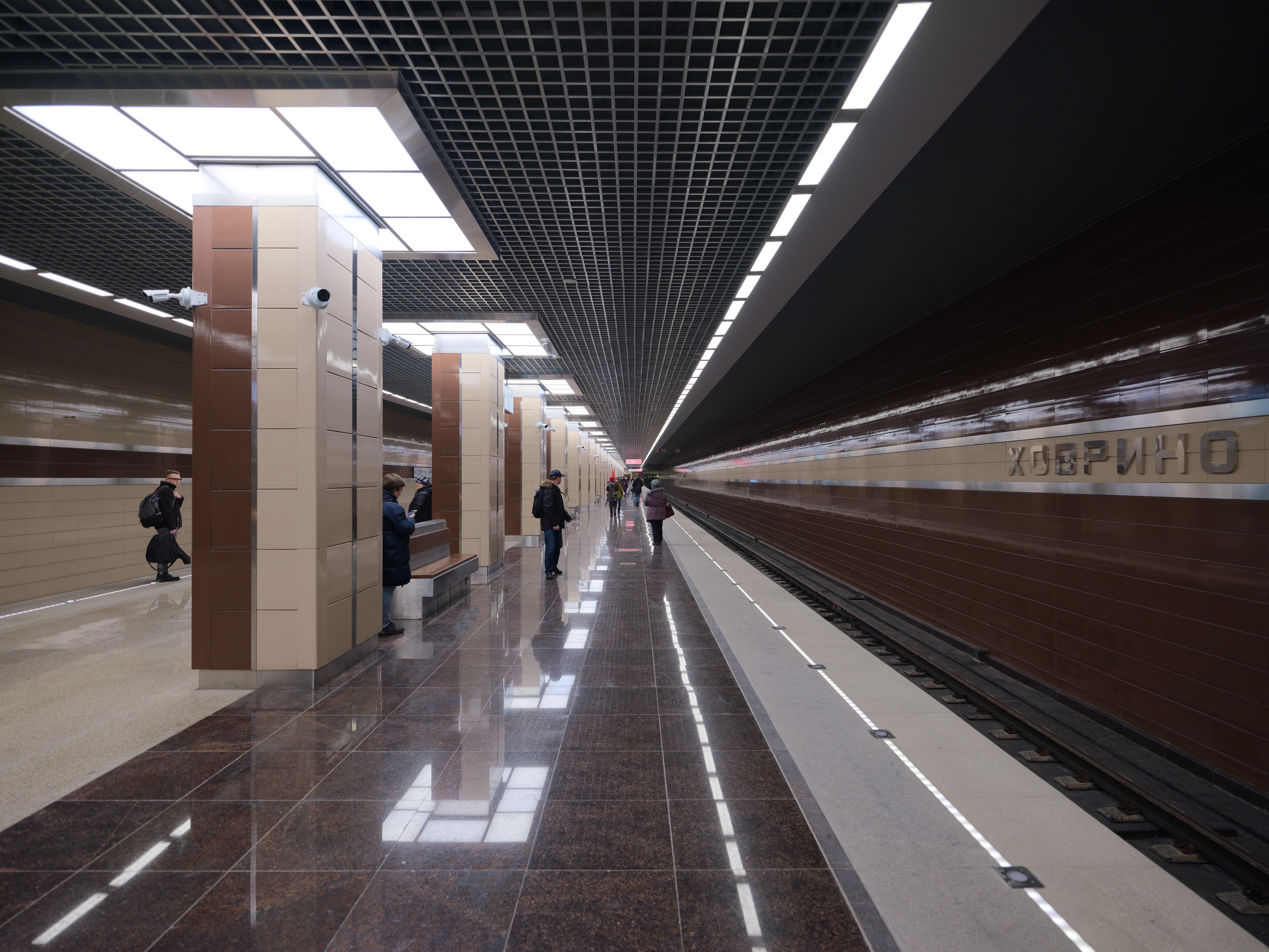 Hovrino